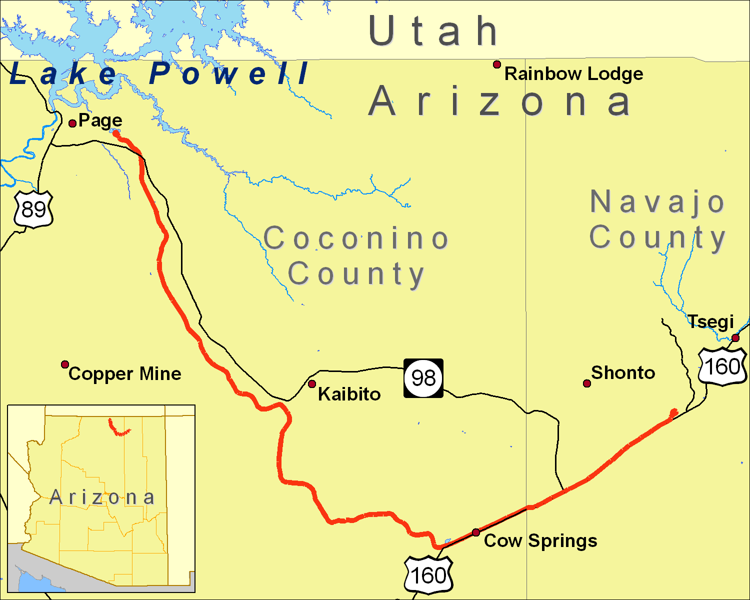 A map of the Black Mesa and Lake Powell Railroad extent, using data from the 2000 US Census TIGER Line file for railroads and roads (obtained from and data. I created it using ArcGIS 9.1.